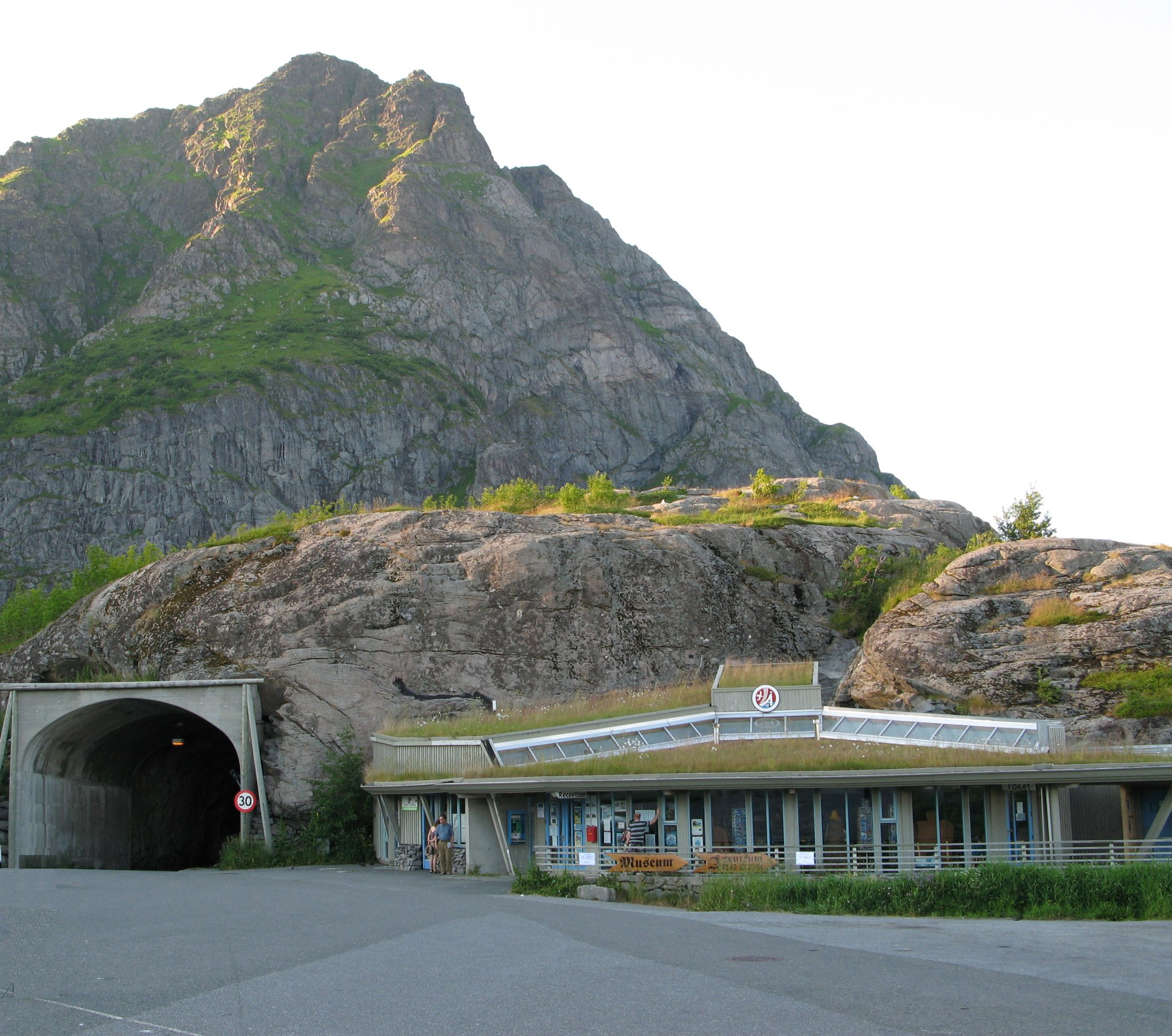 End of E10-route in Å village, Norway